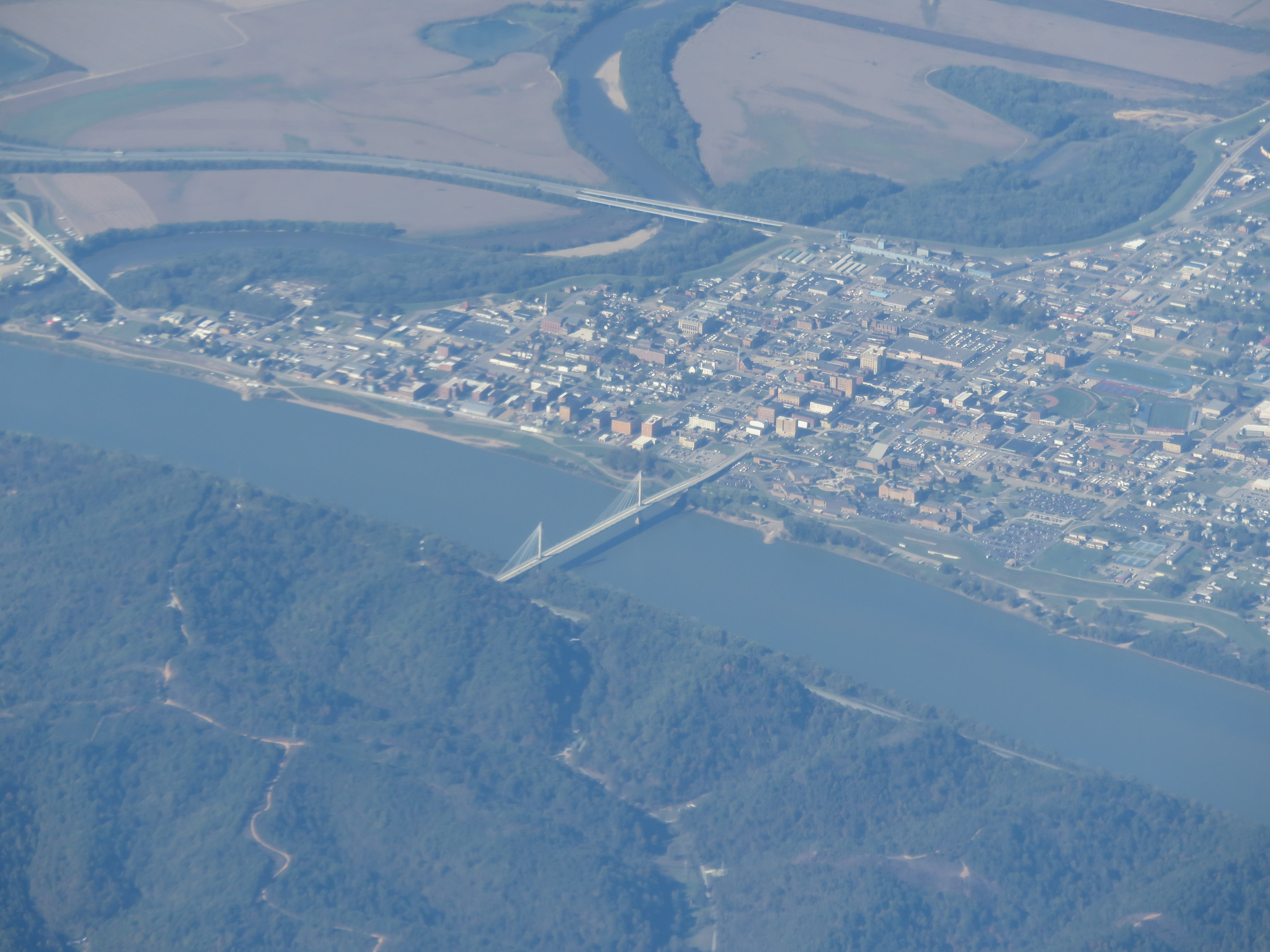 Aerial view of the U.S. Grant Bridge over the Ohio River in 2017